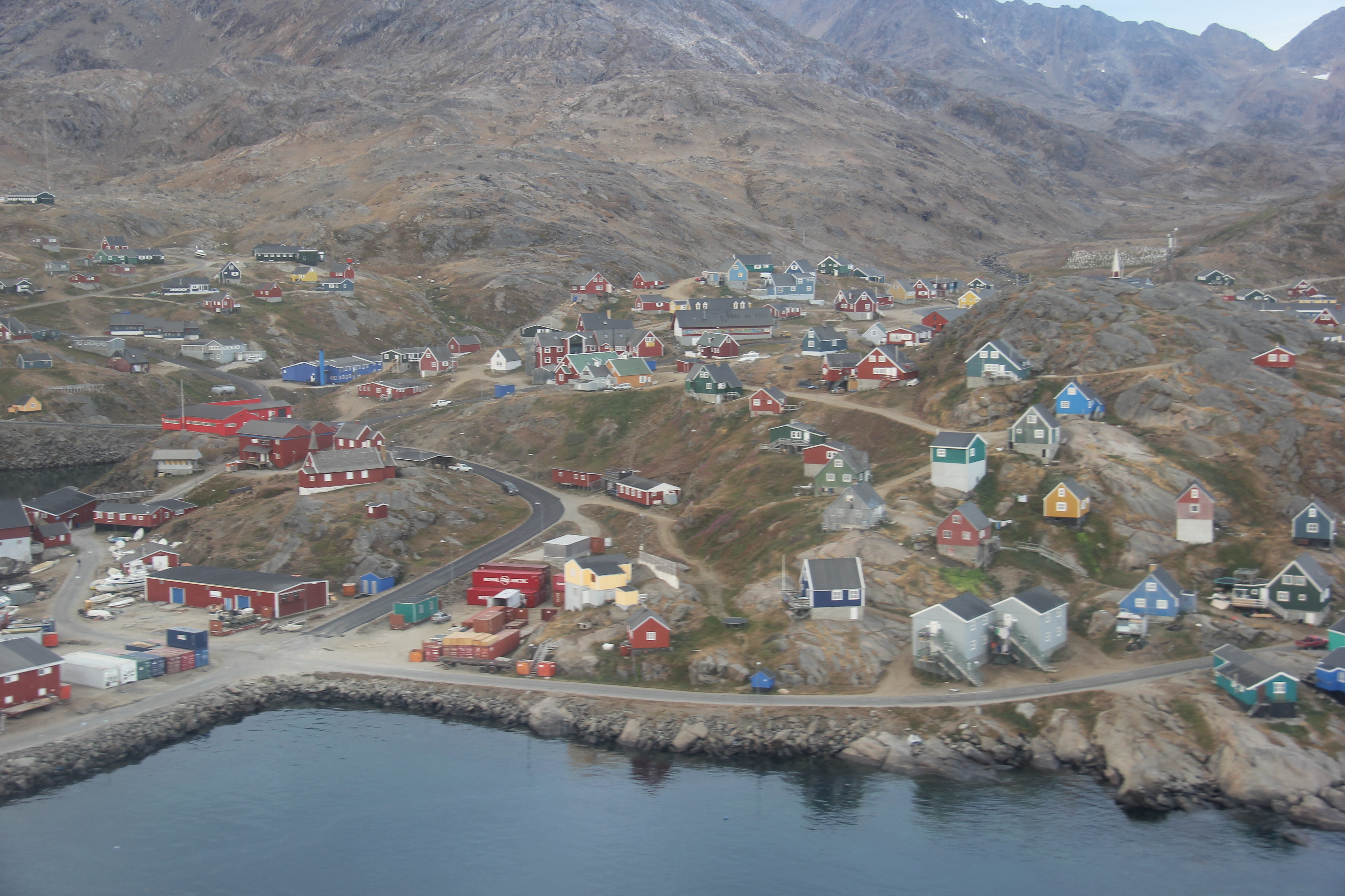 The central part of Tasiilaq seen from above